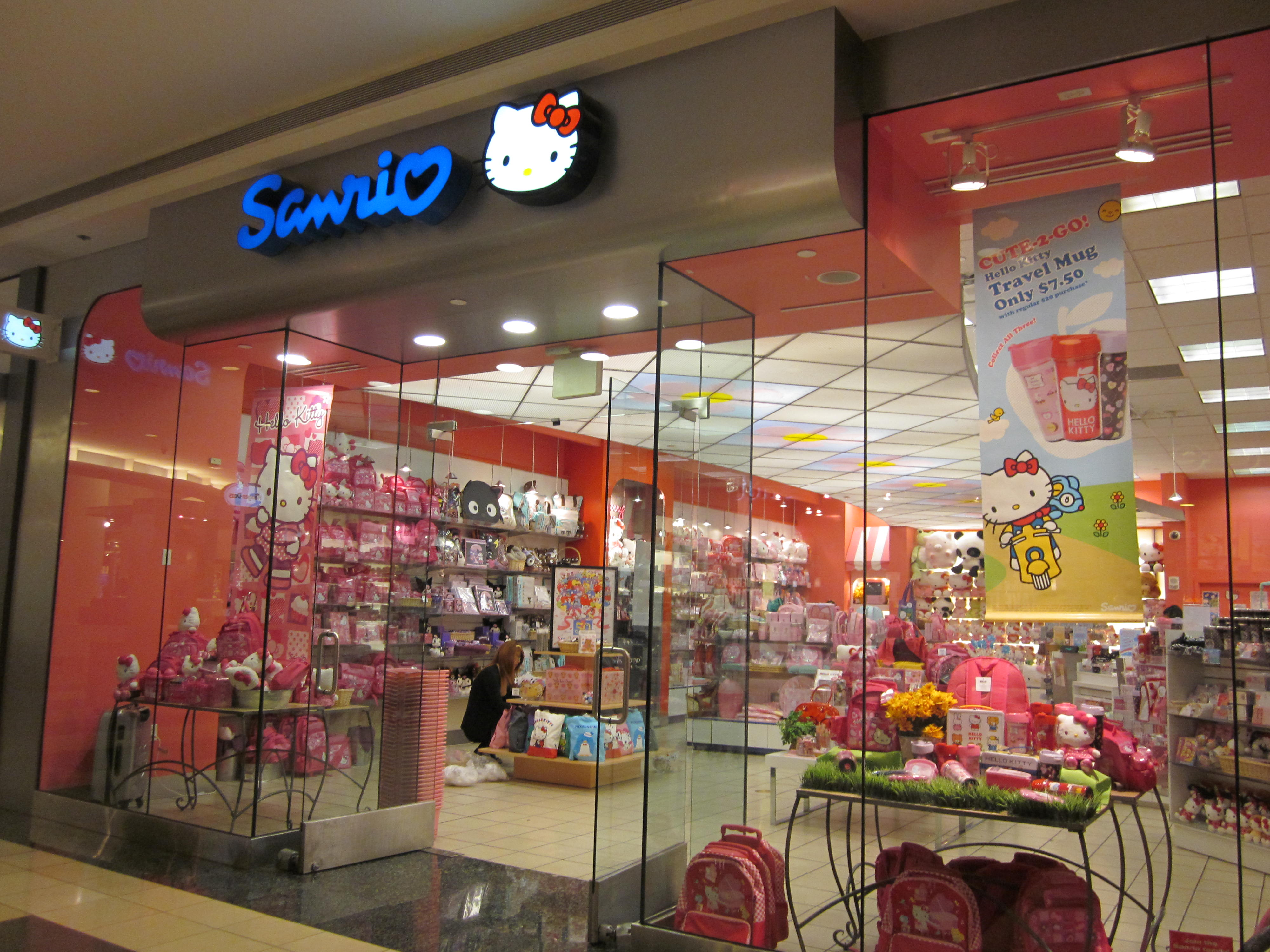 The Sanrio store at the Westfield San Francisco Centre, San Francisco